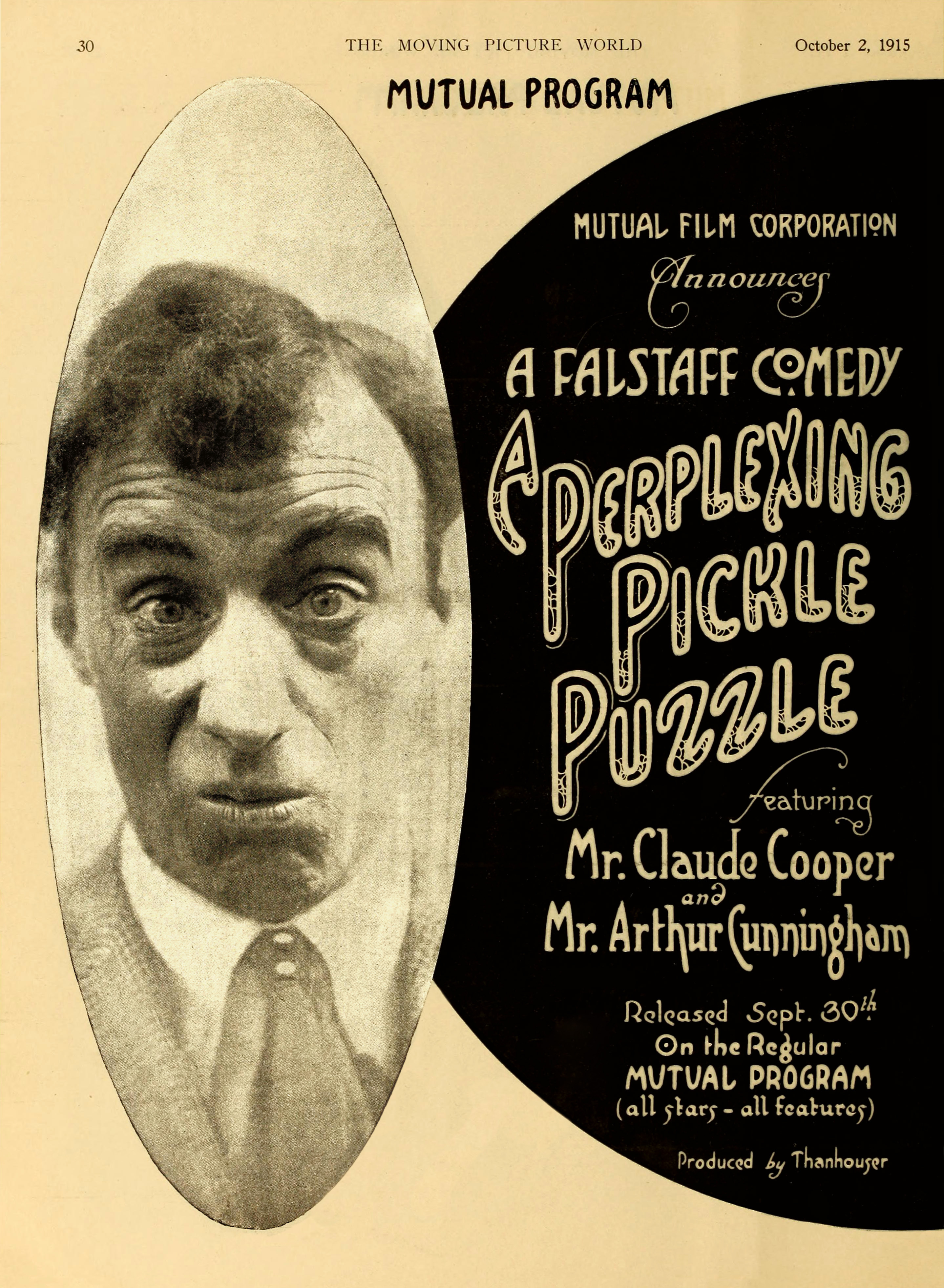 Full page advertisement in The Moving Picture World (2 October 1915, p. 30) for the Thanhouser silent comedy A Perplexing Pickle Puzzle using Claude Cooper's face as a major element.